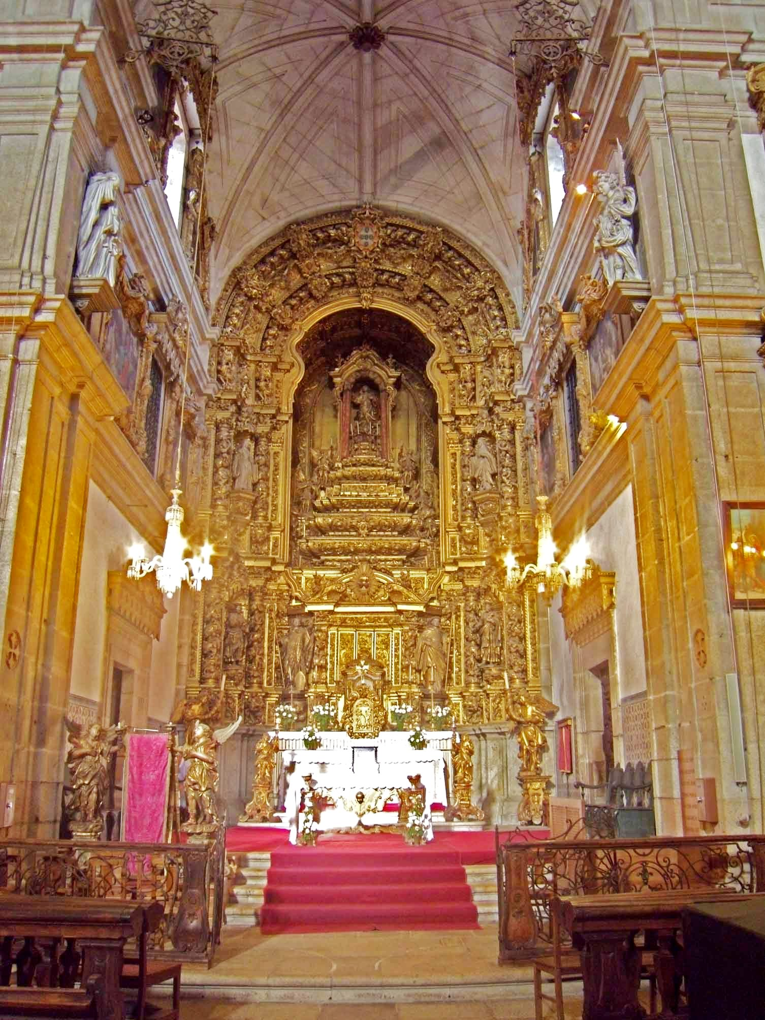 Arouca Monastery - Portugal